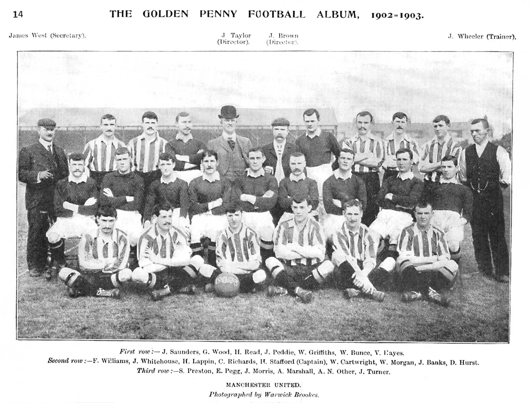 The 1902-03 Manchester United team. Half-a team wear the home jersey while the rest of players are dressed in the away outfit.